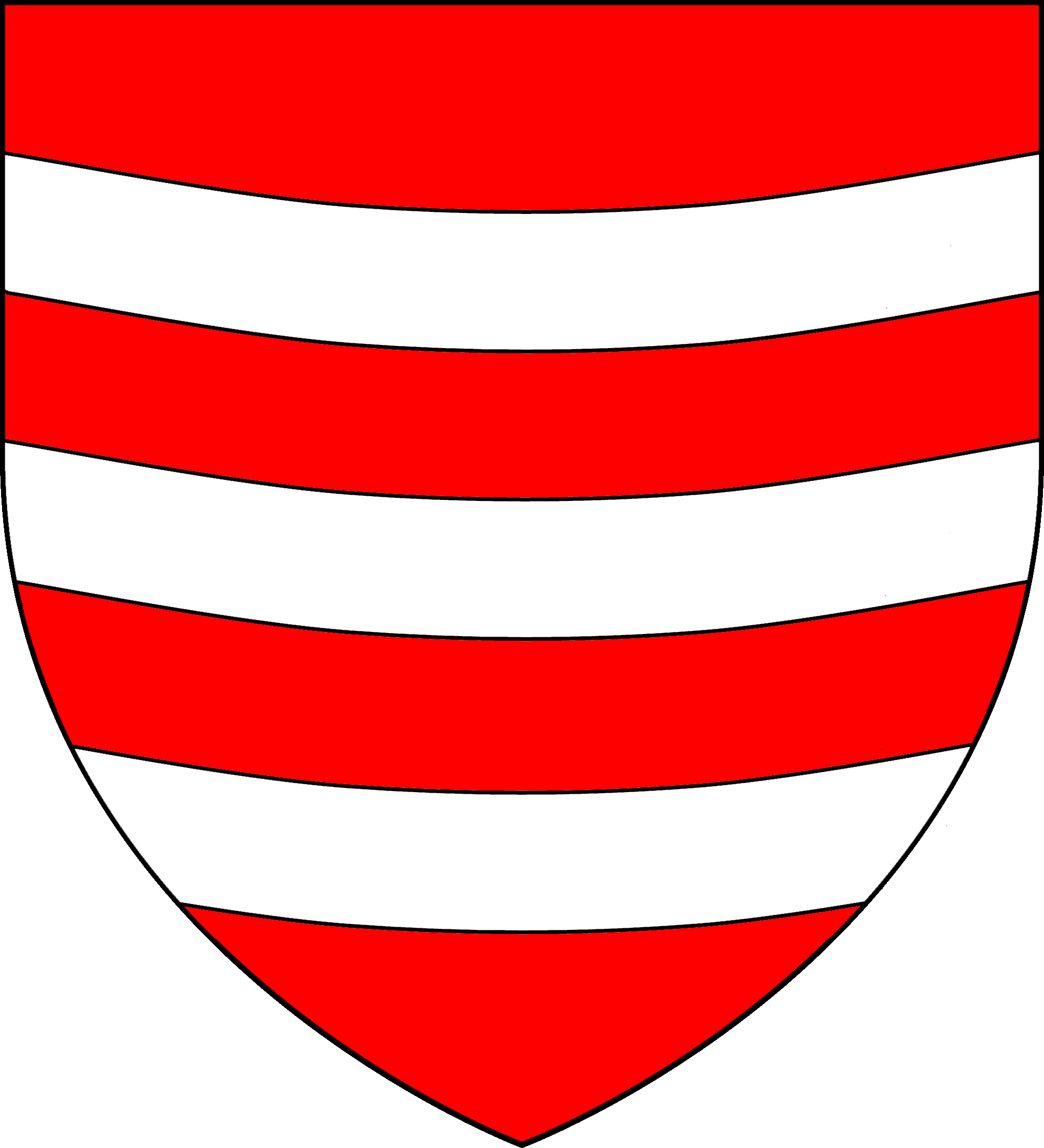 Escudo de armas de la Casa Fardella (Stemma dei Fardella)